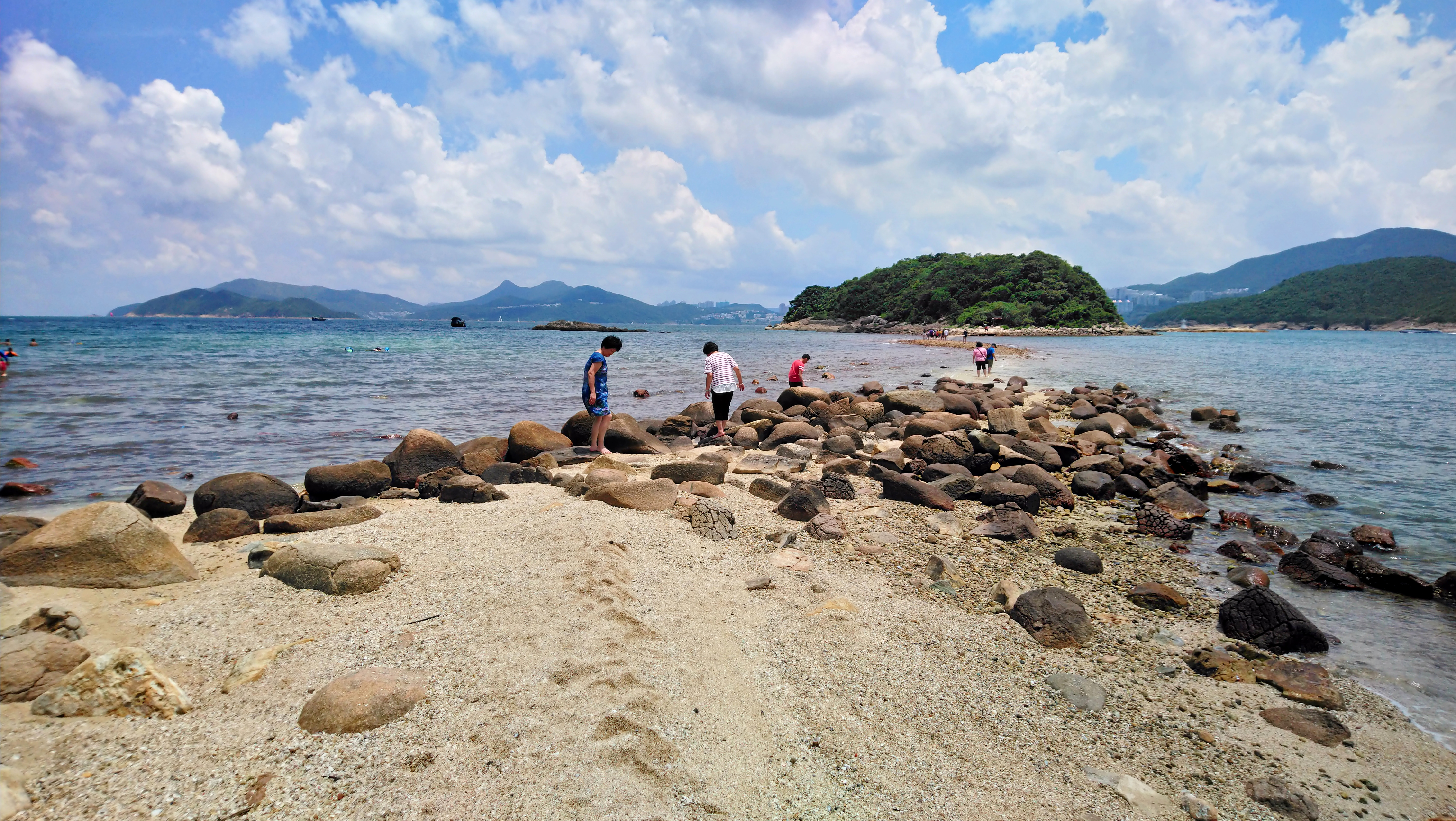 Sharp Island Sand Levee